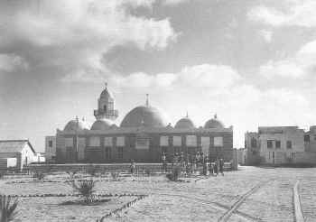 Photograph of the mosque build during the Turkish occupation of Kamaran Island.